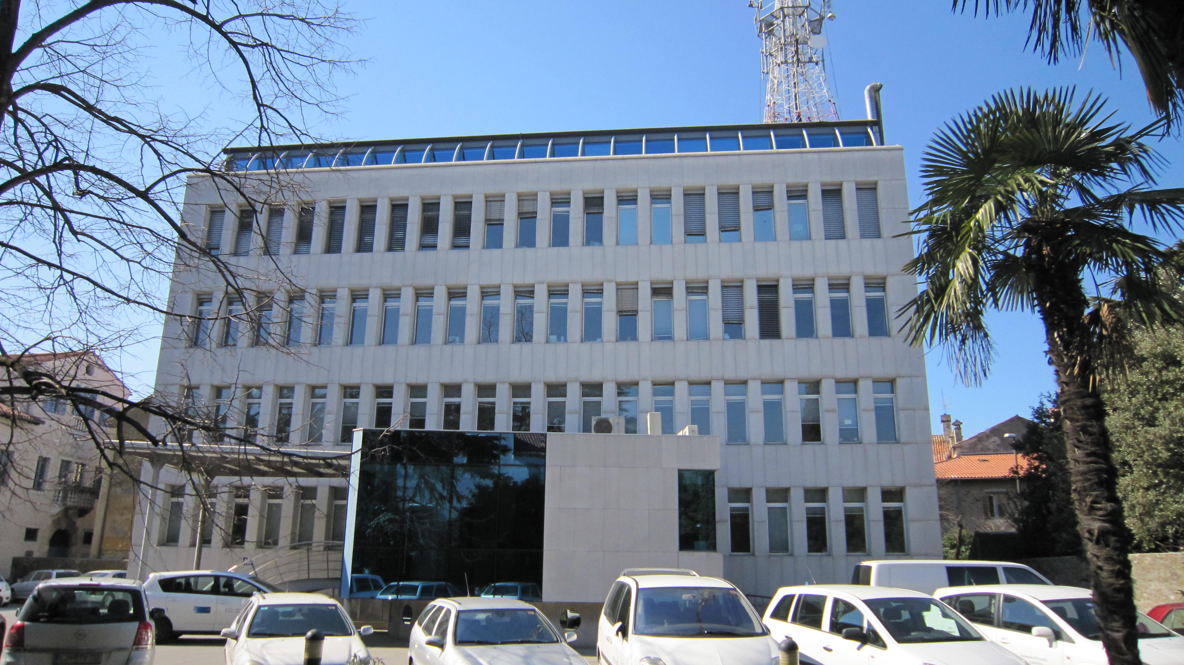 sede radio Koper